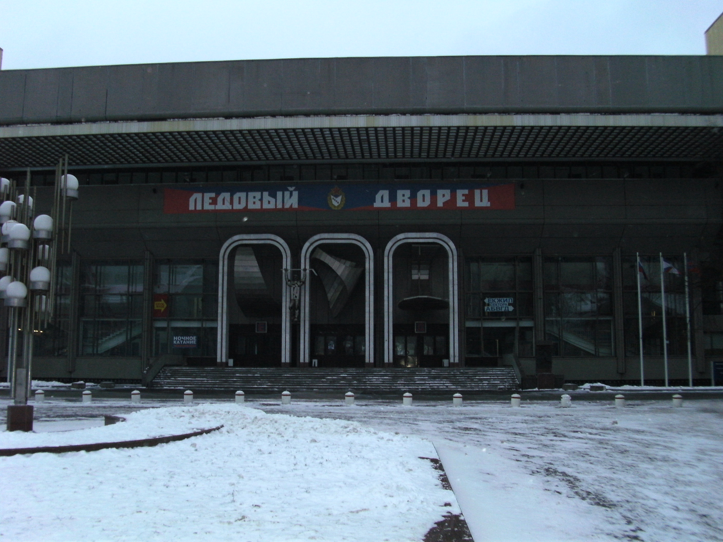 Ice Palace CSKA in Moscow